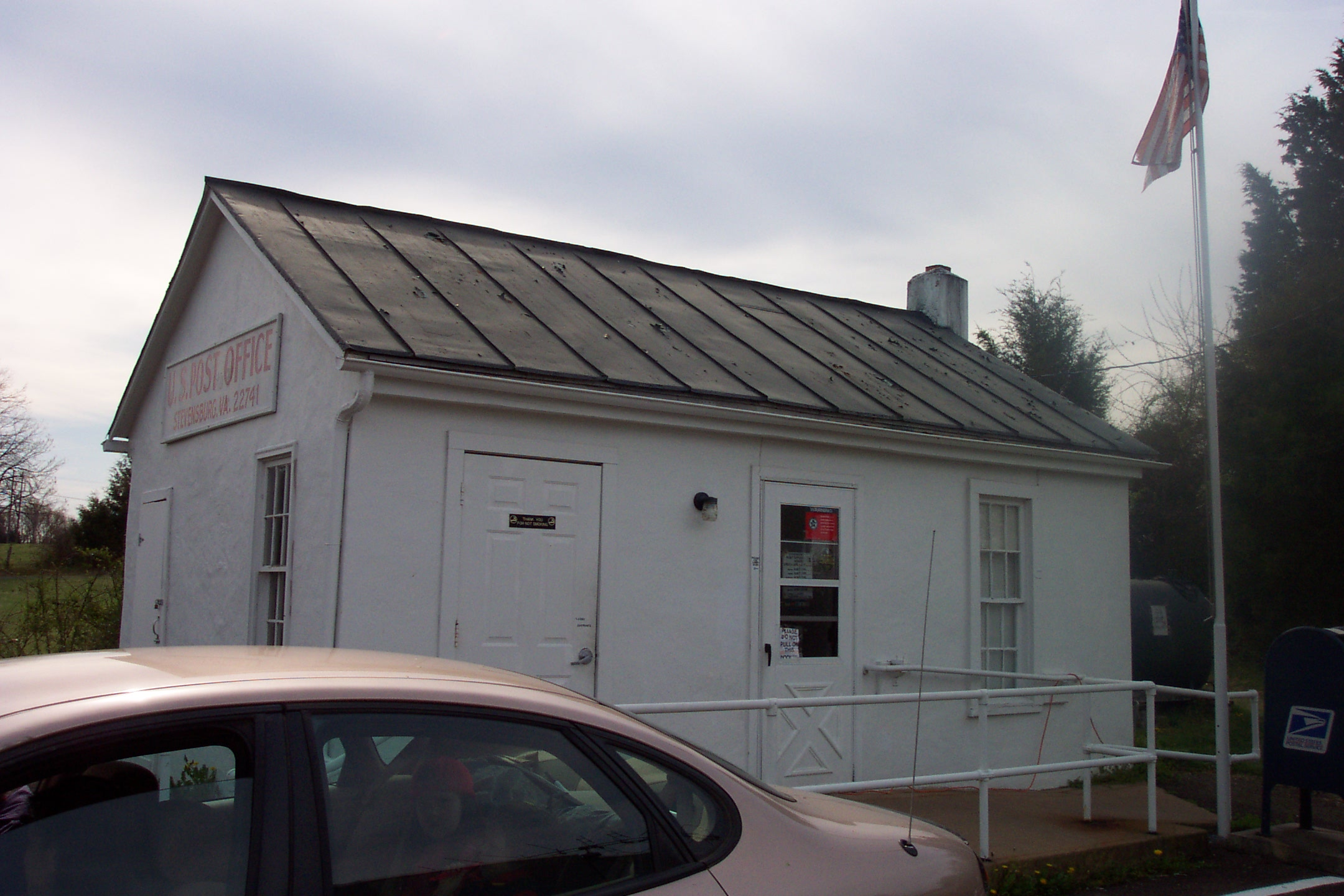 The Stevensburg Post Office is located in this small building just east of the intersection of Routes 3 and 663. The post office building is about 10 by 20 feet, thus making it one of the smallest post offices in the country.